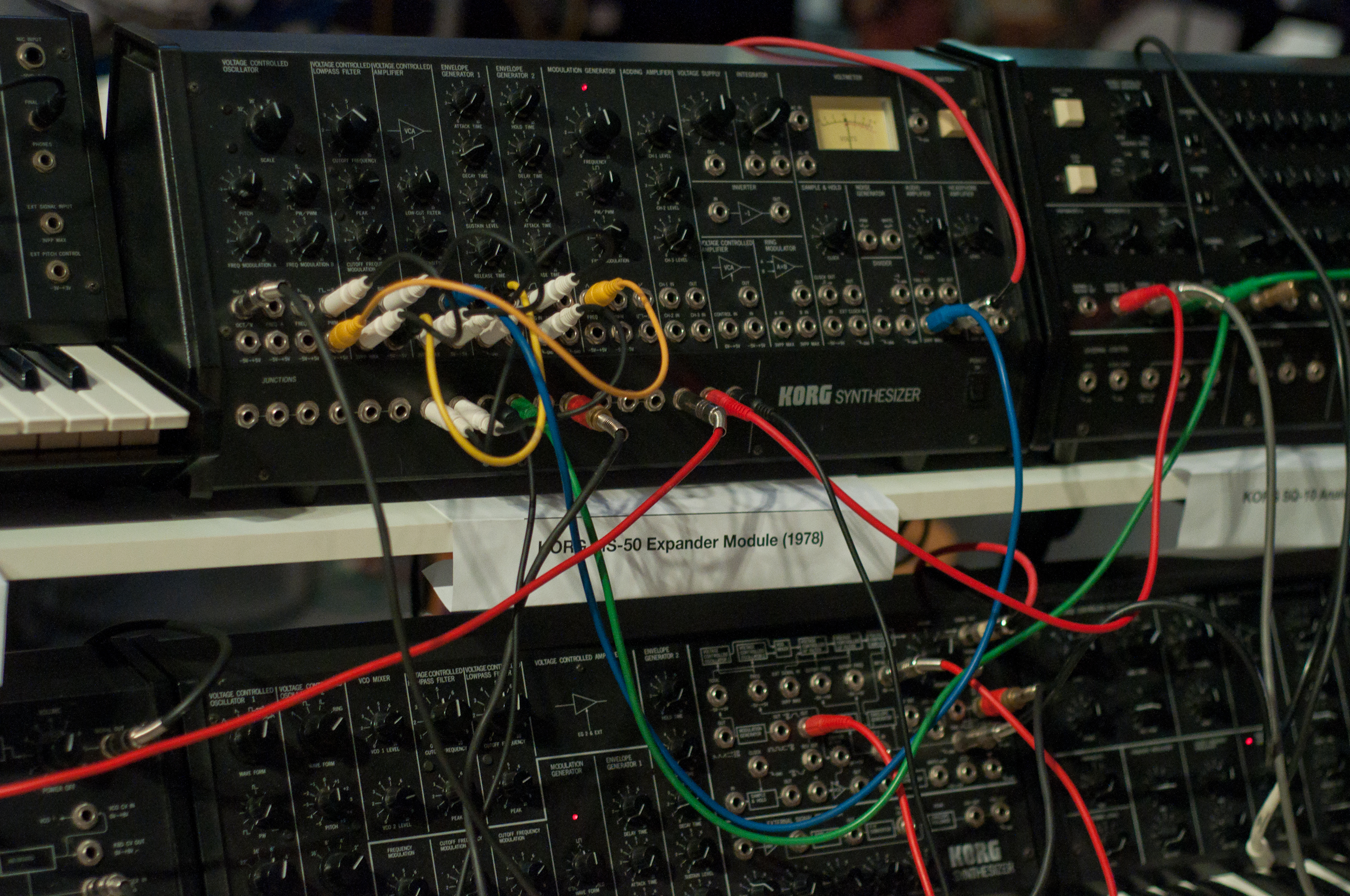 DSC_0001 References Analoga syntar fyller rymden med ljud (in Swedish) (press release). Tekniska museet (2010-10-27). Archived from the original on 2010-11-07. "Tid: 6 november 12-16 / Plats: "Ett Rymdäventyr" på Tekniska museet, Museivägen 7"